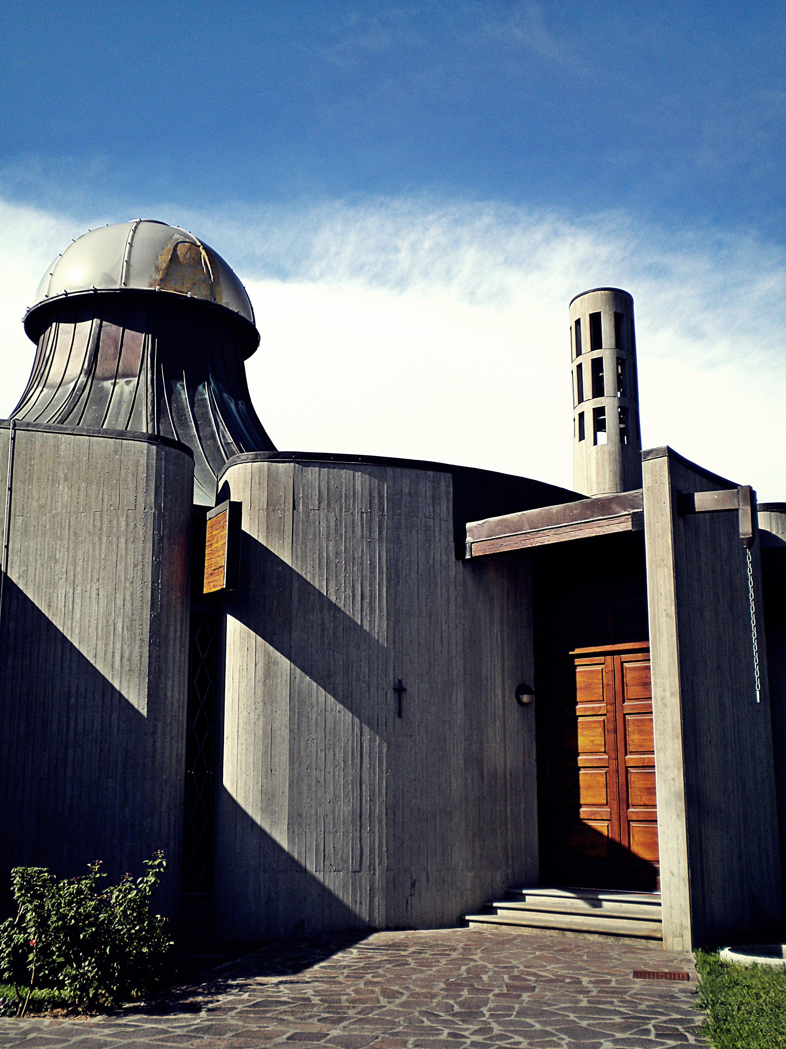 church